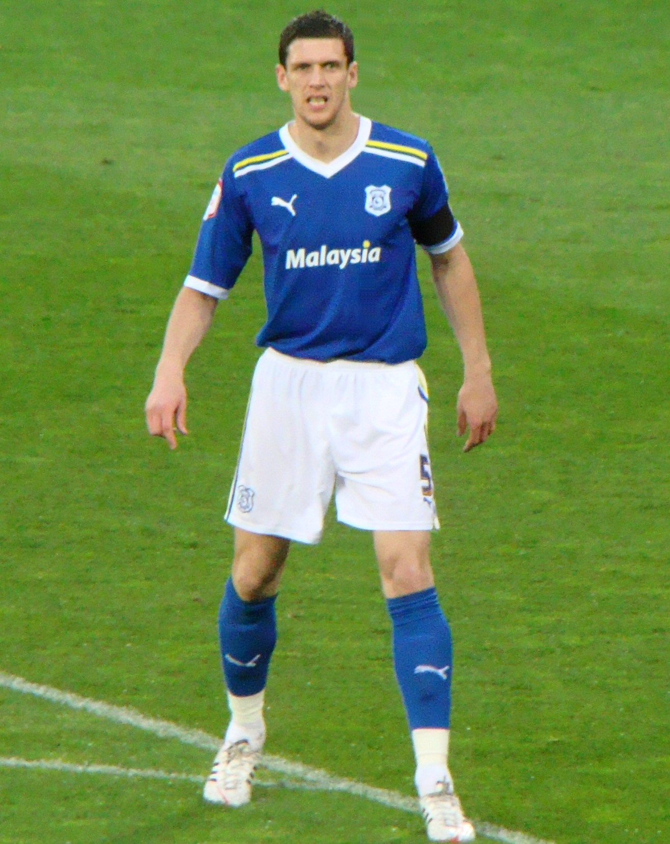 Mark Hudson at Cardiff v Derby, Championship, Cardiff City Stadium, Cardiff, Wales, 2012-04-17.